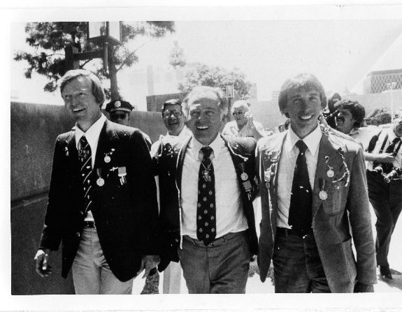 Ben Abruzzo, Maxie Anderson, and Larry Newman made the first Atlantic ocean crossing by balloon in the Double Eagle II launching from Presque Isle, Maine and landing in Miserey near Paris, 137 hours 6 minutes later on 17 August 1978. Catalog #: 02-N-00058 Last Name: Newman First Name: Larry Repository: San Diego Air and Space Museum Archive